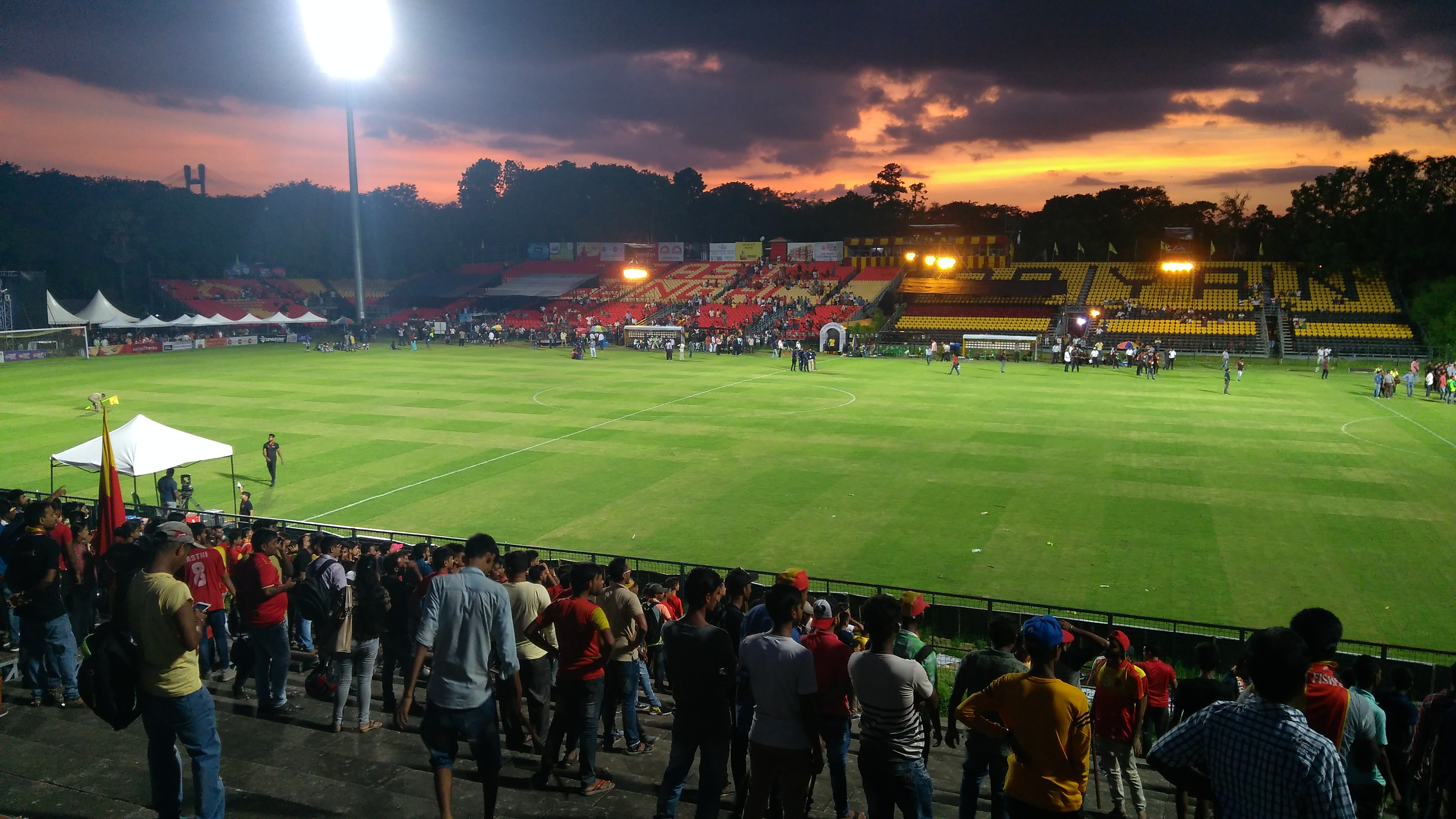 East Bengal ground at night